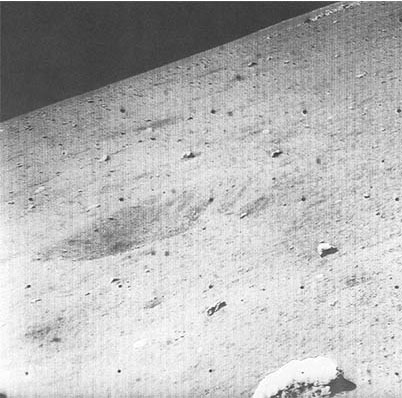 Crater photographed by Surveyor 1